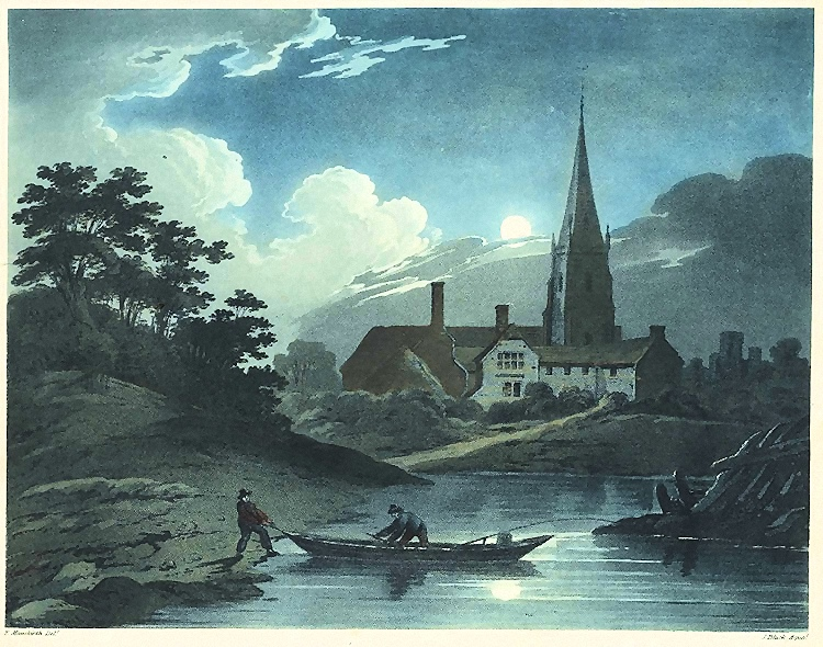 1 print : aquatint (tinted), b&w ; image size 227 x 293 mm., paper size 260 x 305 mm.